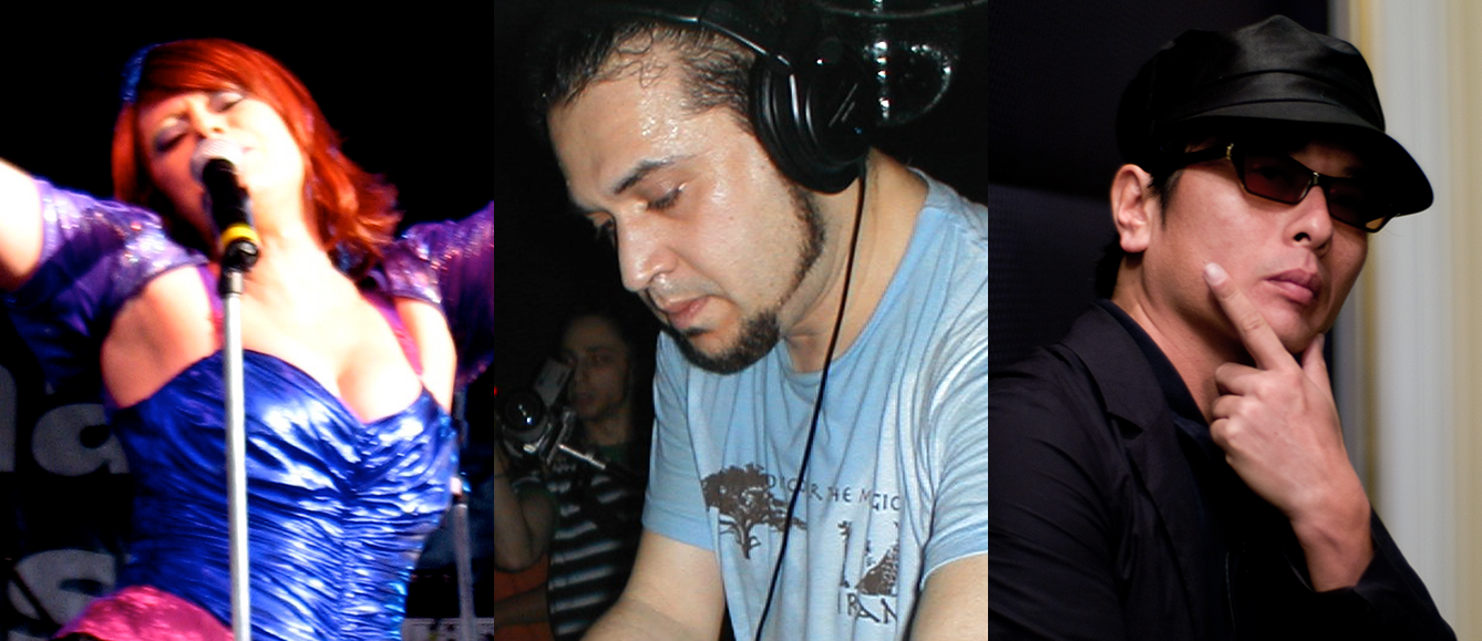 Members of Deee-Lite